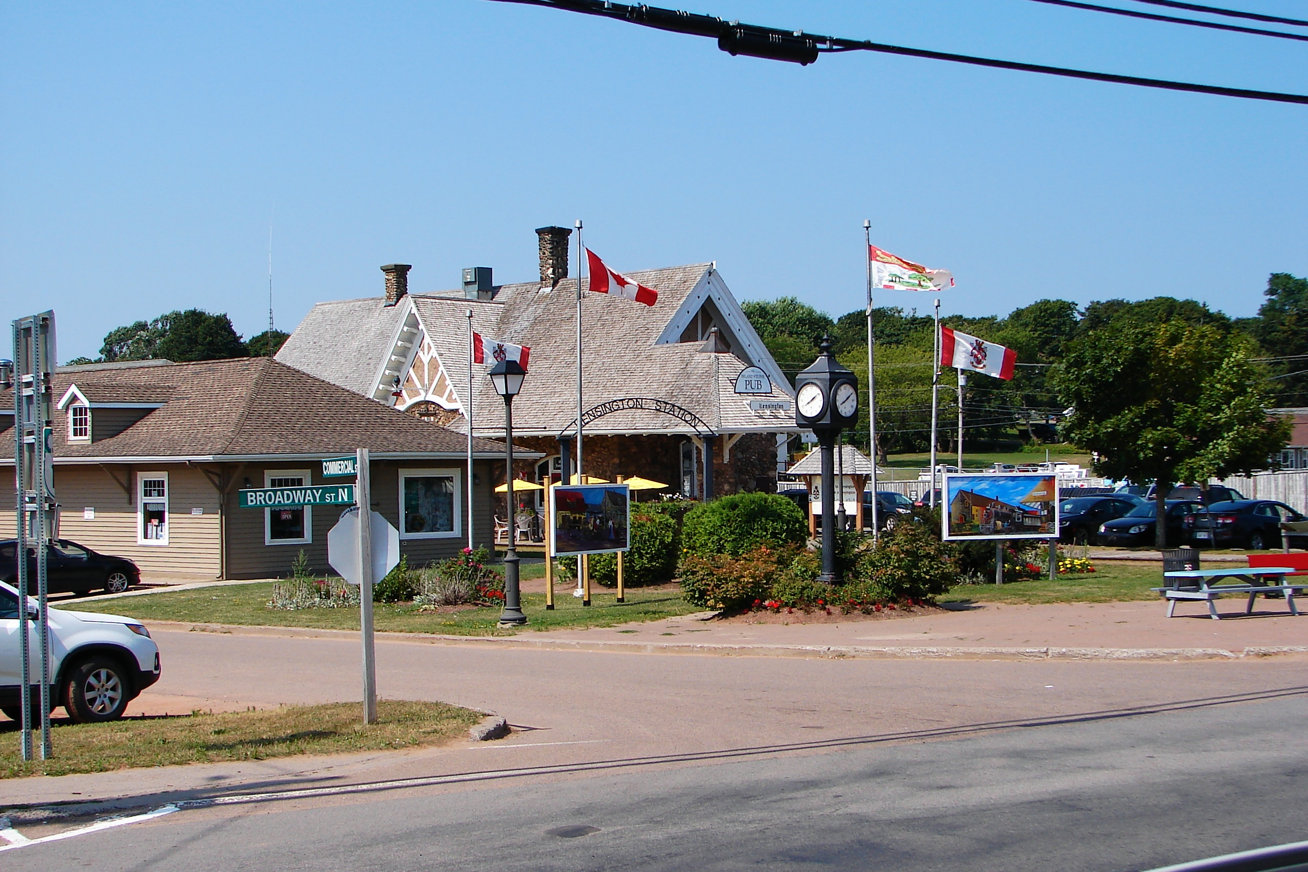 Kensington, Prince Edward Island, Canada